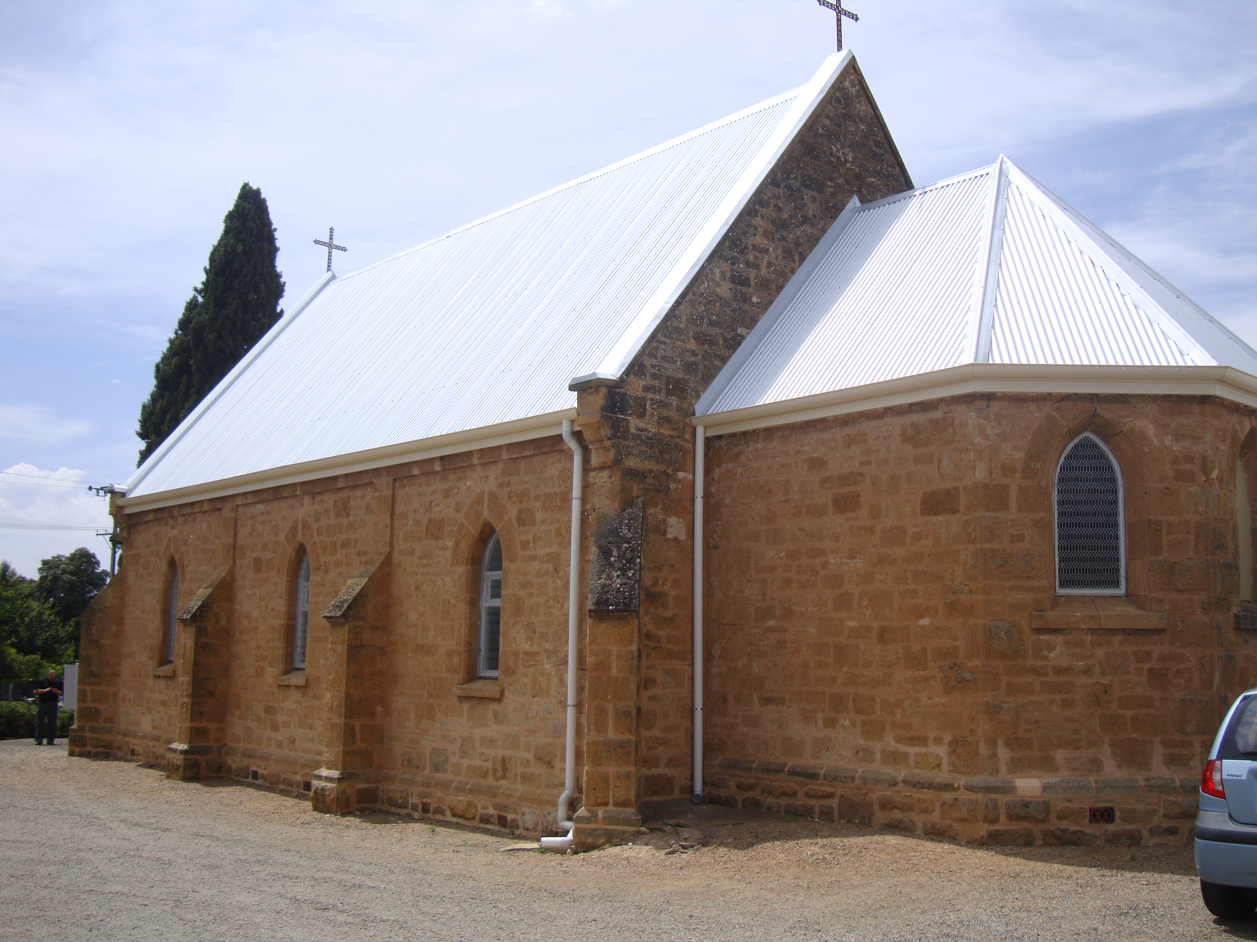 Photograph of St John's Cathedral, Murray Bridge, South Australia